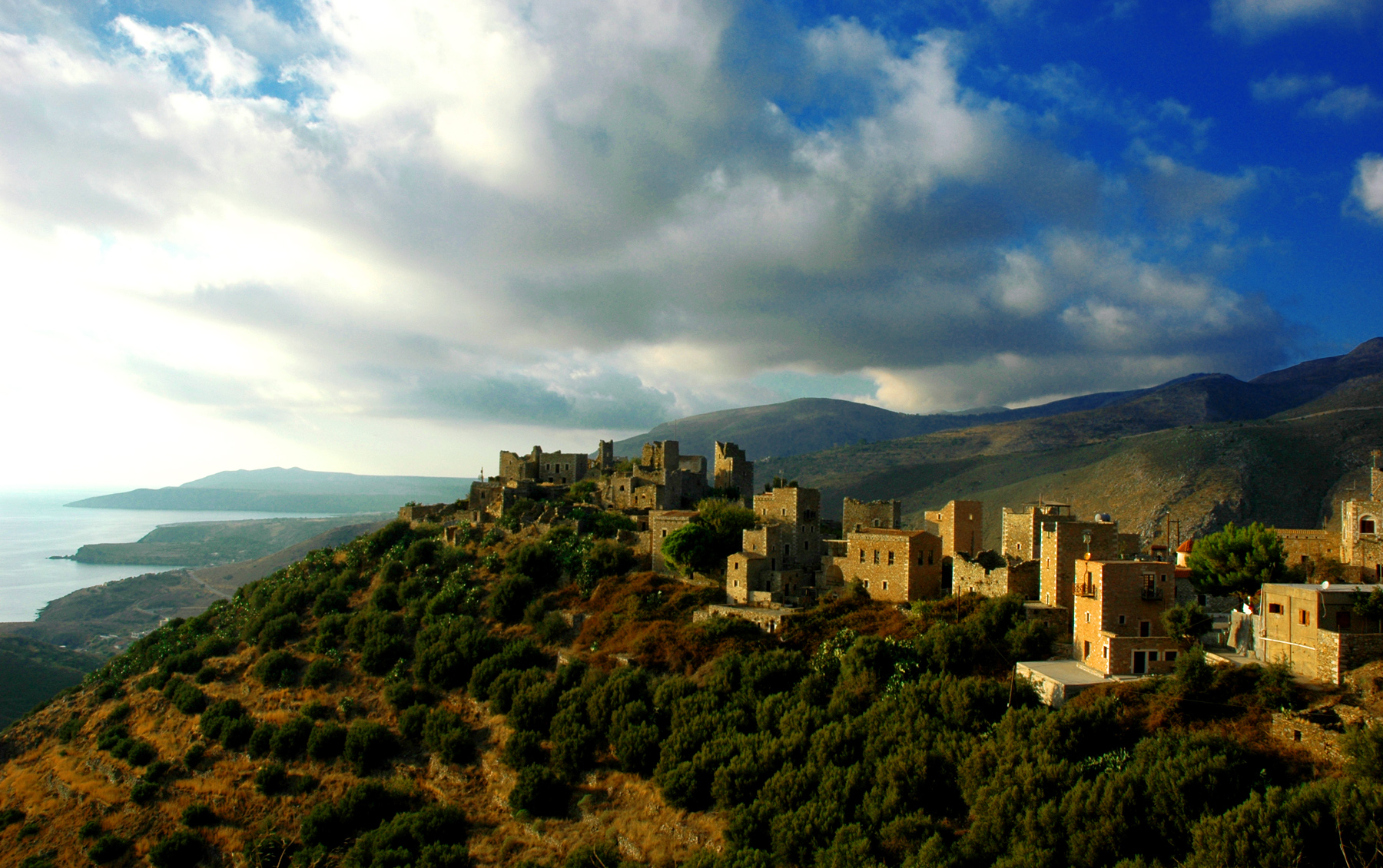 The village of Vathia, Greece